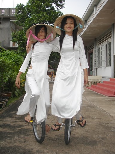 It is a photo which belongs to Lin teacher - my teacher. He agree to public to use in Wikipedia